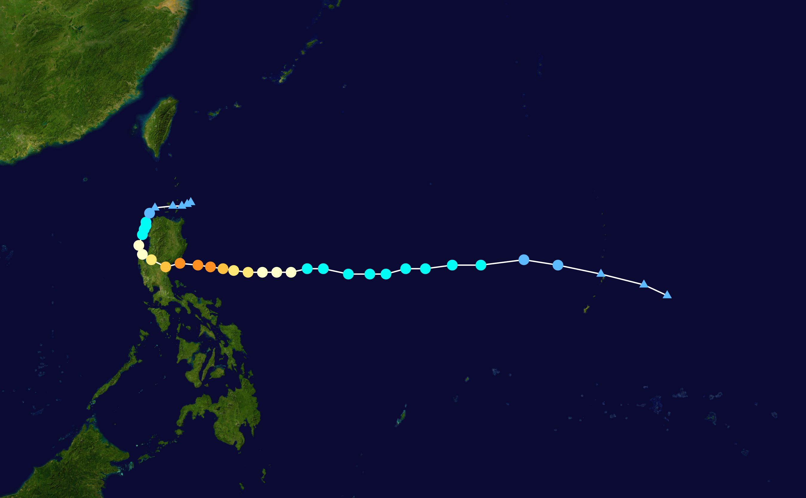 Track map of Typhoon Koppu of the 2015 Pacific typhoon season. The points show the location of the storm at 6-hour intervals. The colour represents the storm's maximum sustained wind speeds as classified in the Saffir–Simpson scale (see below), and the shape of the data points represent the nature of the storm, according to the legend below. Saffir–Simpson scale Tropical depression≤38 mph≤62 km/h Category 3111–129 mph178–208 km/h Tropical storm39–73 mph63–118 km/h Category 4130–156 mph209–251 km/h Category 174–95 mph119–153 km/h Category 5≥157 mph≥252 km/h Category 296–110 mph154–177 km/h Unknown Storm type Tropical cyclone Subtropical cyclone Extratropical cyclone / Remnant low / Tropical disturbance / Monsoon depression